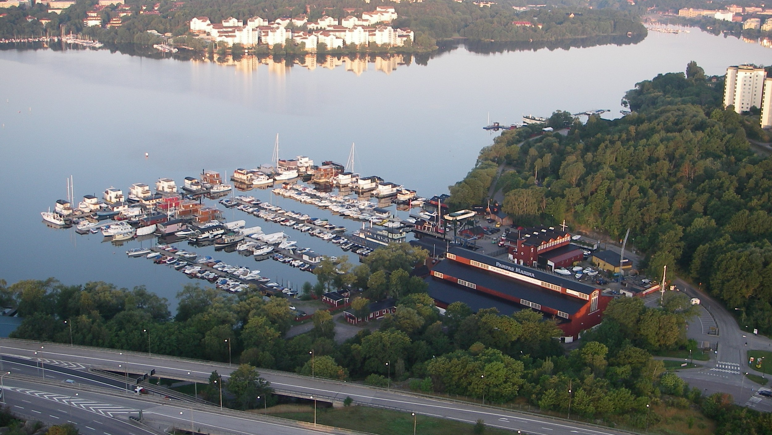 Pampas Marina, Stockholm. Picture is taken from a hot air baloon early in the morning.